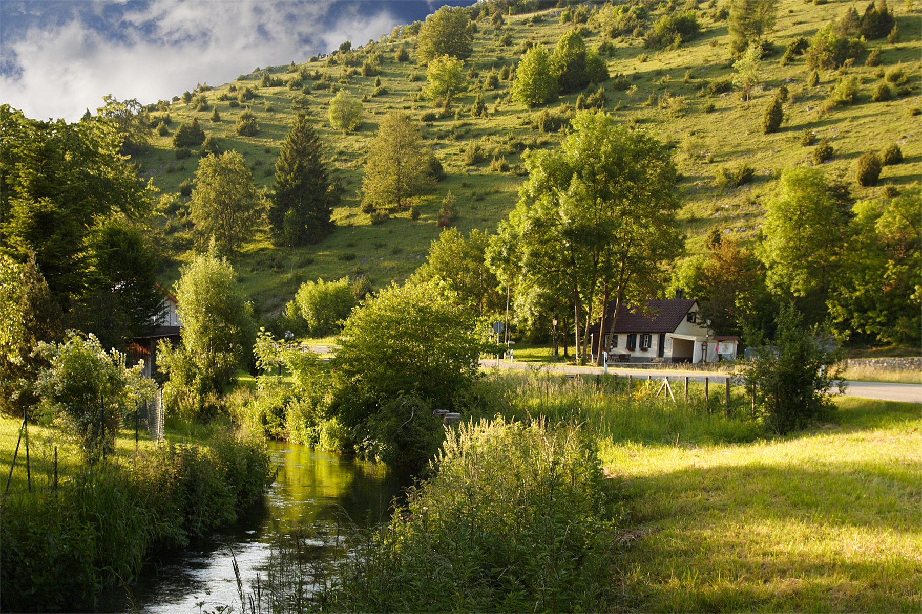 Calcareous grassland at river Große Lauter. The slope, a typical juniper heath of the Swabian Alb, is moderately kept by grazing sheep, yet always subject to ecological succession.